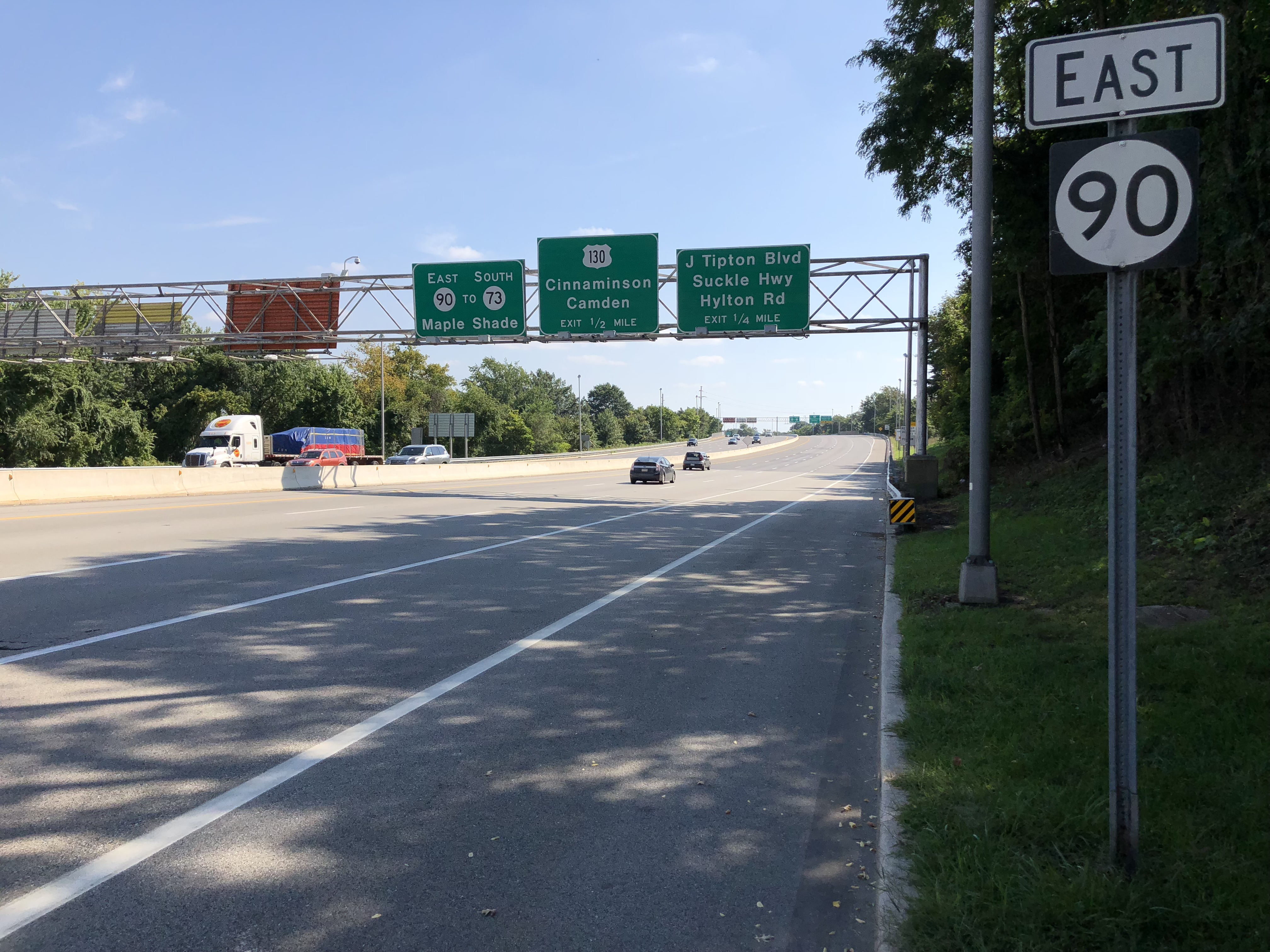 View east along New Jersey State Route 90 just west of U.S. Route 130 in Pennsauken Township, Camden County, New Jersey